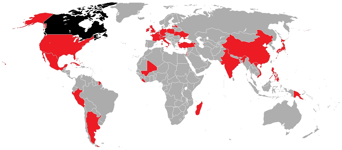 World map highlighting counties visited by Justin Trudeau while Prime Minister